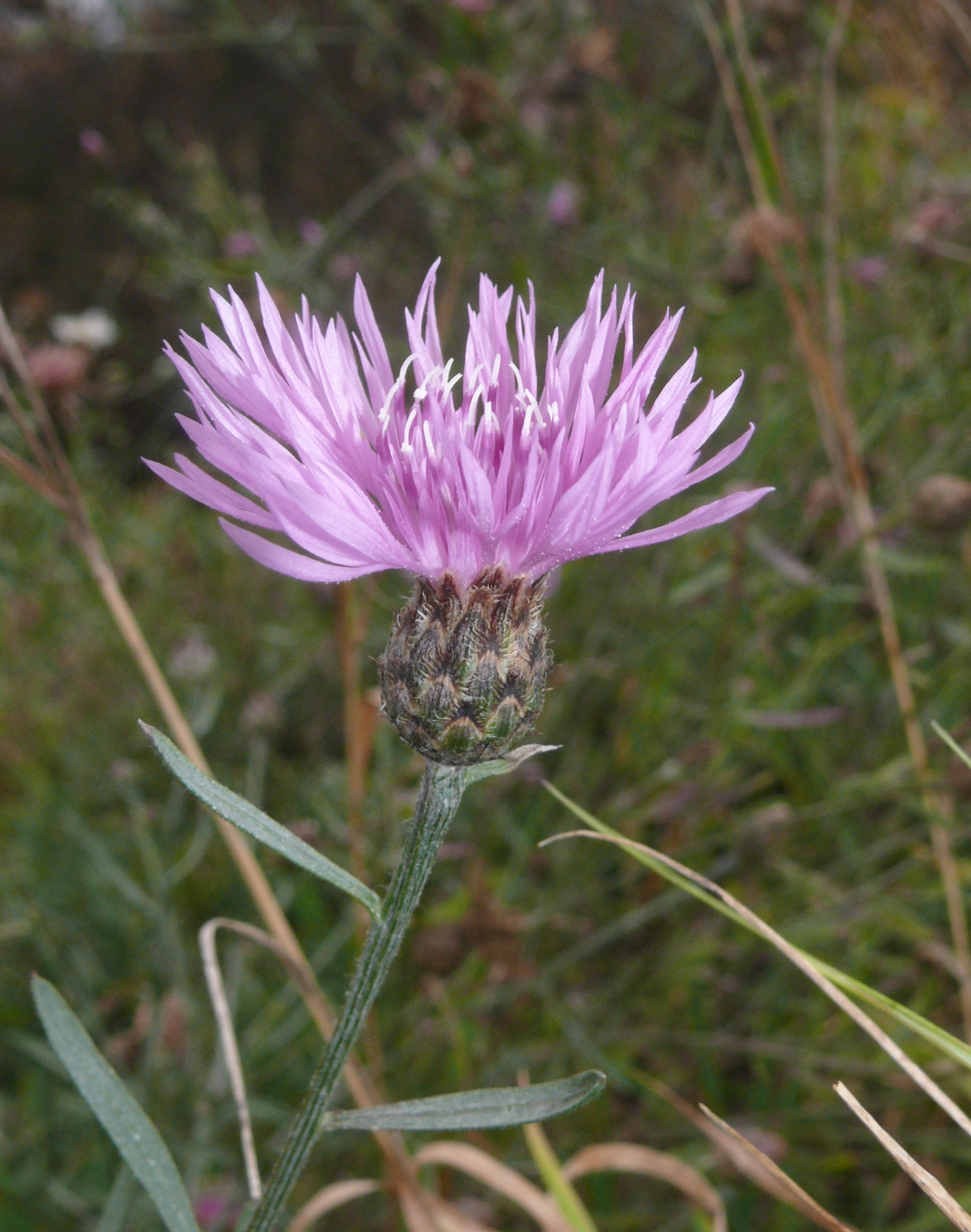 Centaurea stoebe, Tauberland, Germany